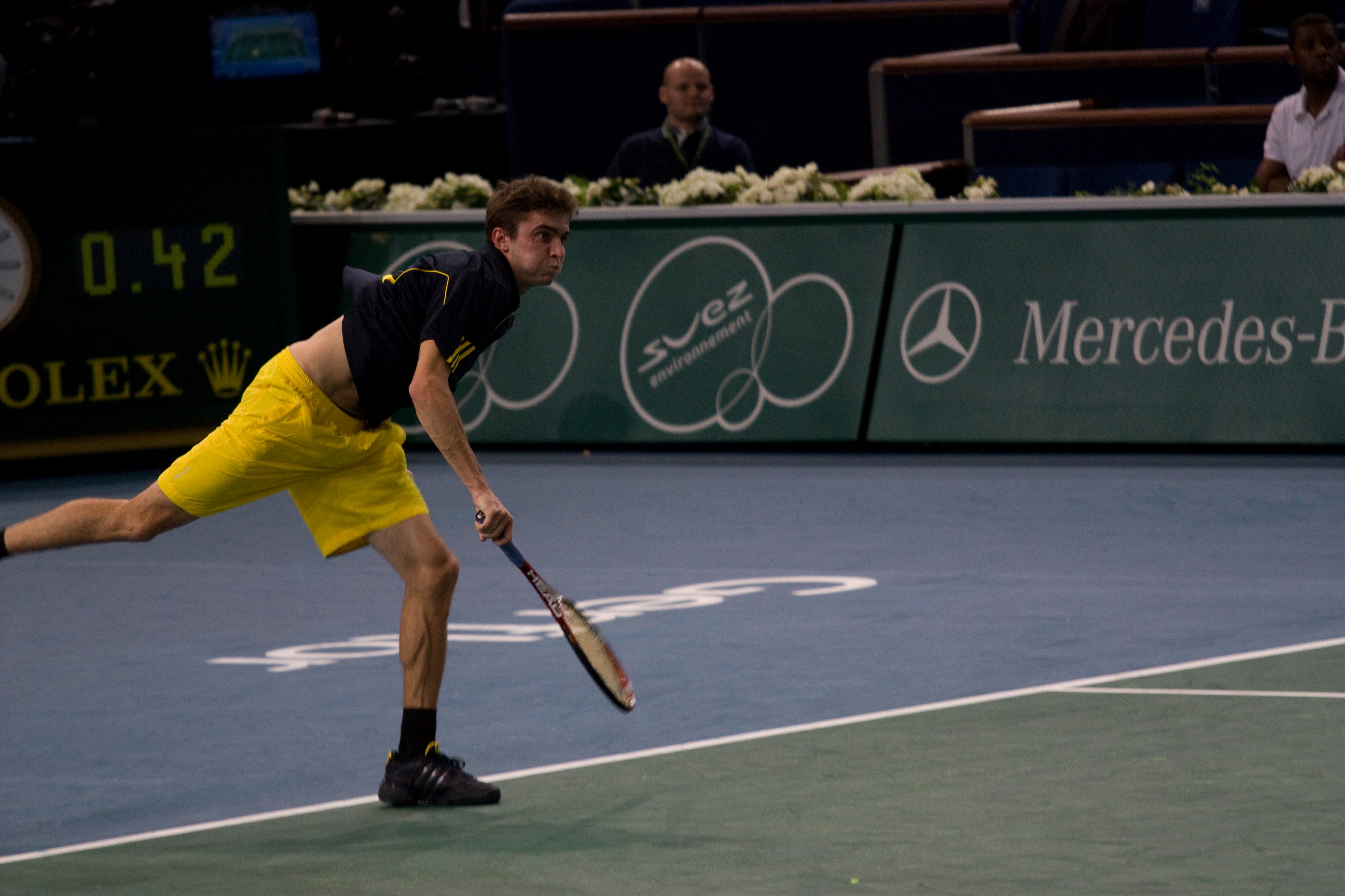 Gilles Simon against Igor Andreev at the 2008 BNP Paribas Masters